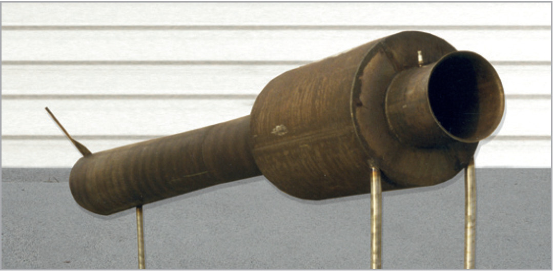 This figure shows the ARGUS-Schmidt Rohr